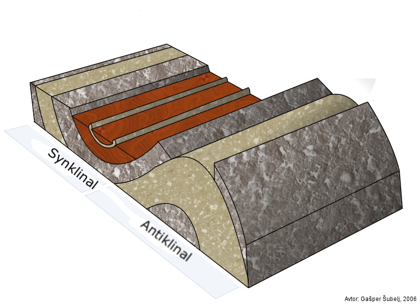 Illustration showing geological folding, modified from illustration made by User:Tcie. The modification is a change in language.